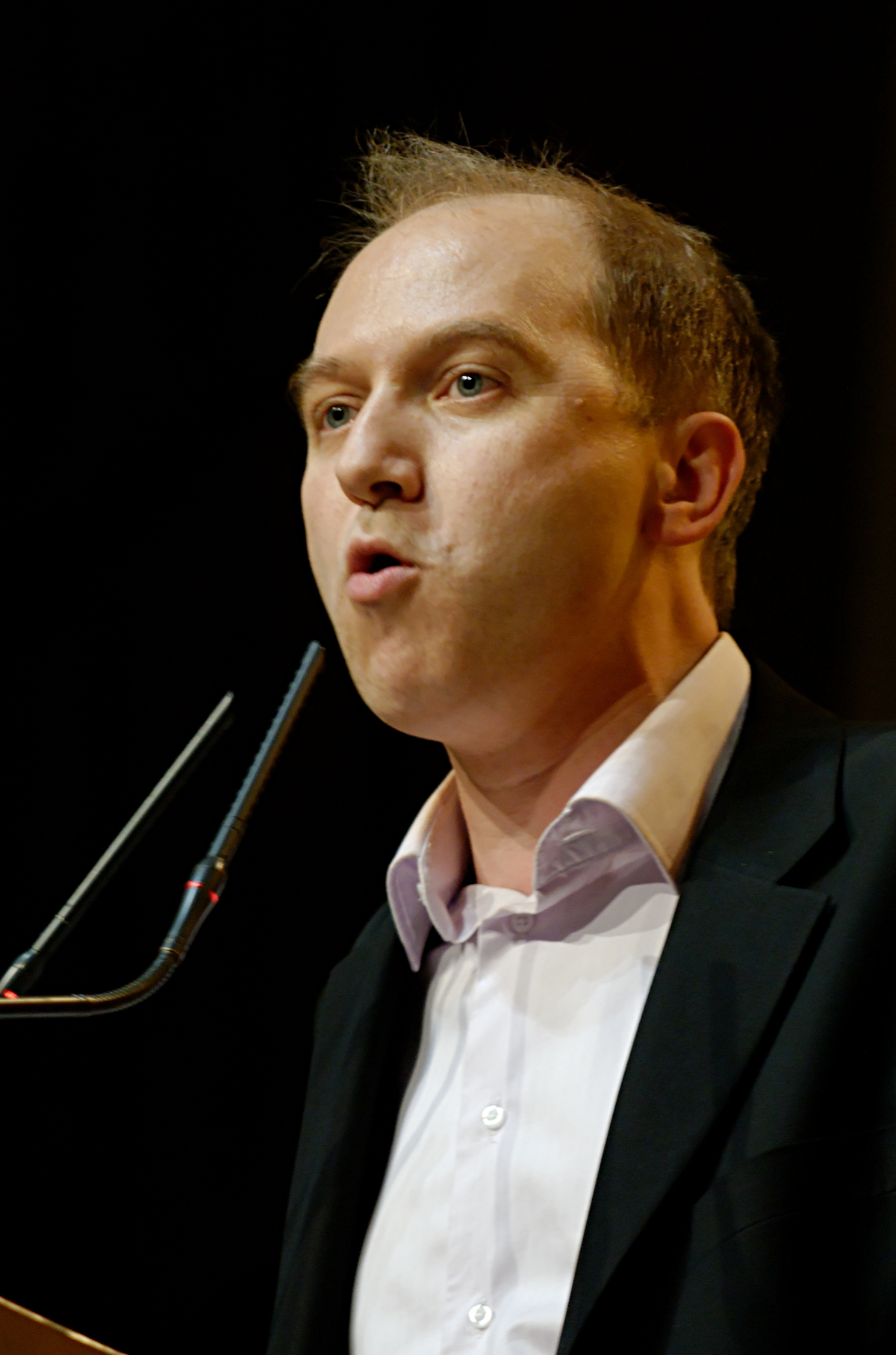 Denis Baupin at a meeting held on Apr. 5, 2007 by the French Greens Party at the Palais de la Mutualité in Paris.